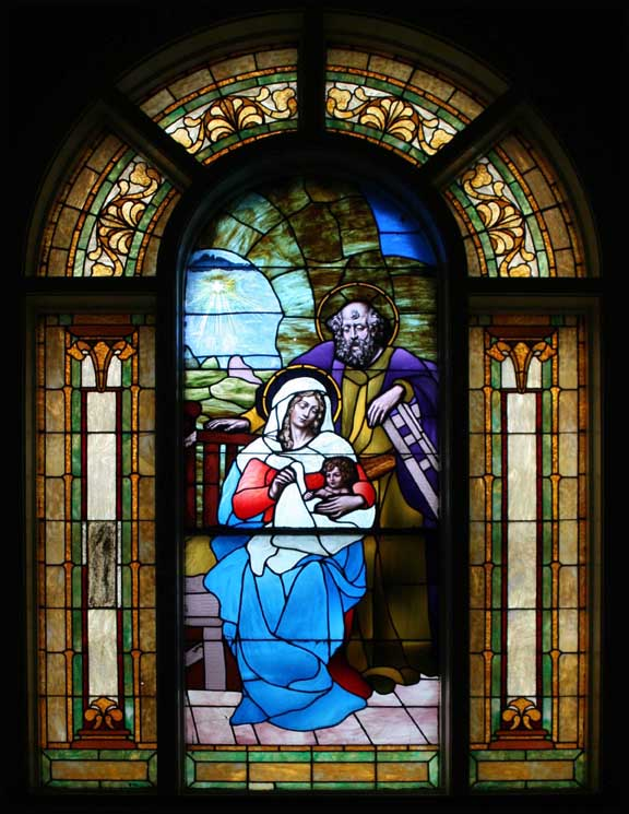 Stained Glass Panel over main entrance at Nativity of Our Lord Church, Chicago